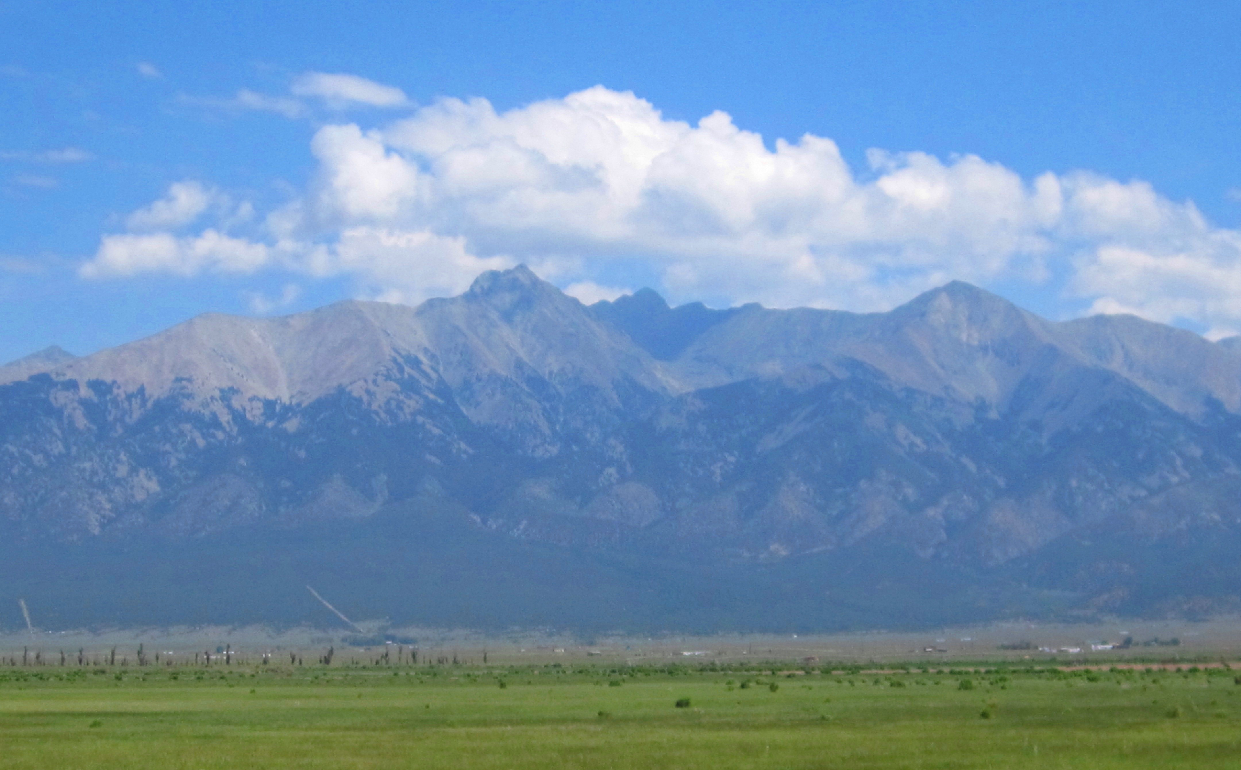 Blanca Peak and Little Bear Peak